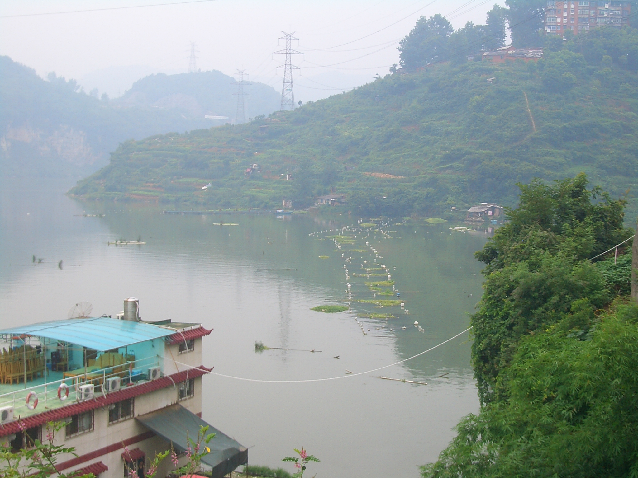 On the Huangbai He River in Yichang, a couple kilometers upstream from its fall into the Changjiang (which is just upstream of Gezhouba Dam). The floating thing is probably a restaurant